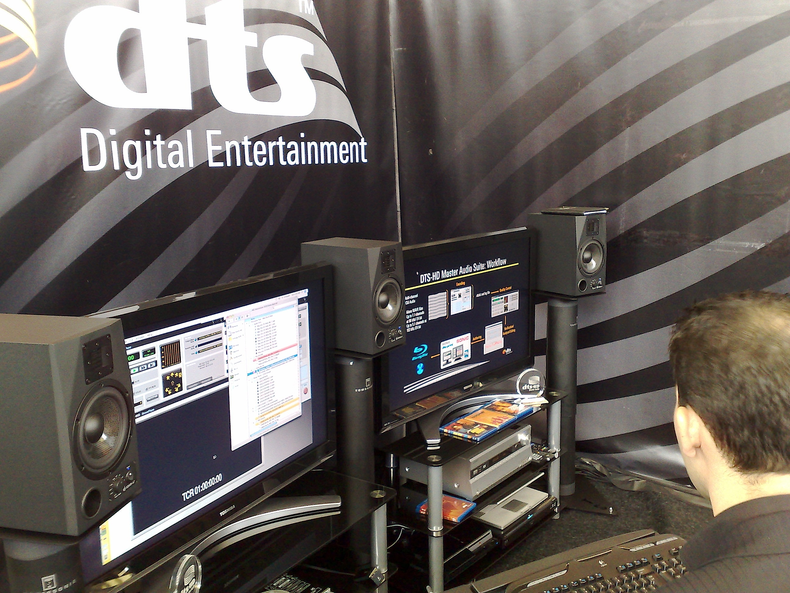 DTS booth at 124th AES Convention exhibition